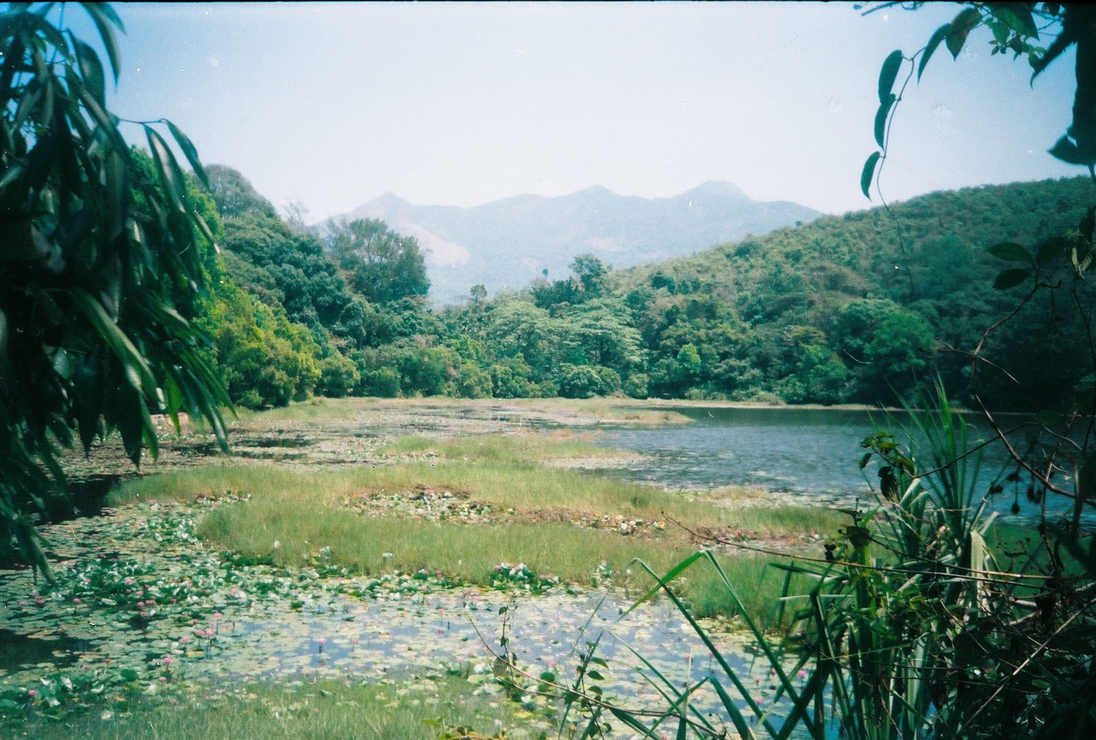 Pookkottu lake in Wayanad (summer time)